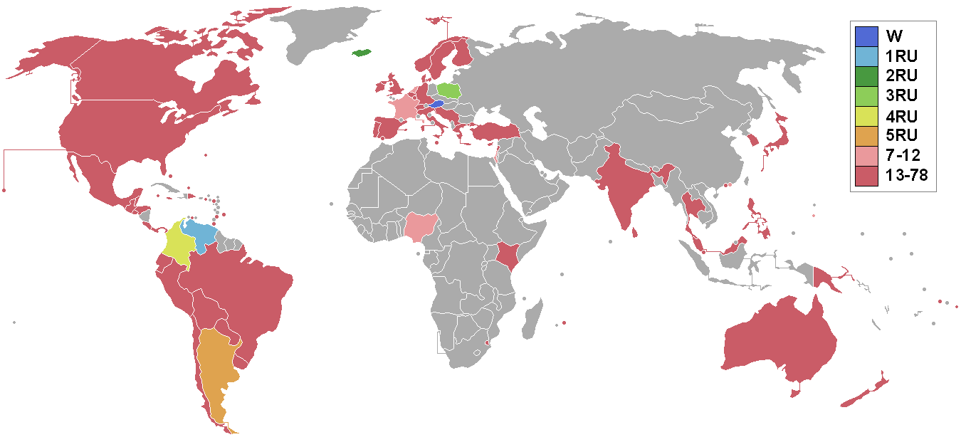 image created by Joey80